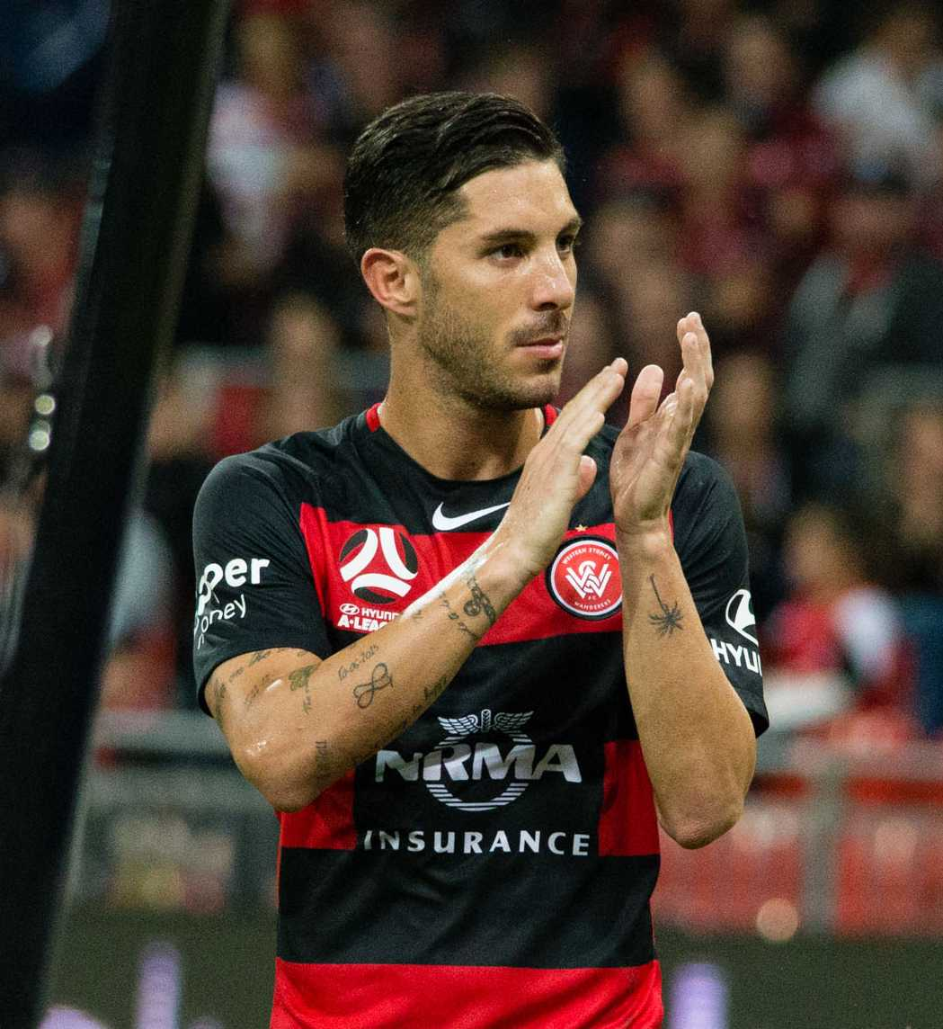 Álvaro Cejudo applauds the fans after being substituted